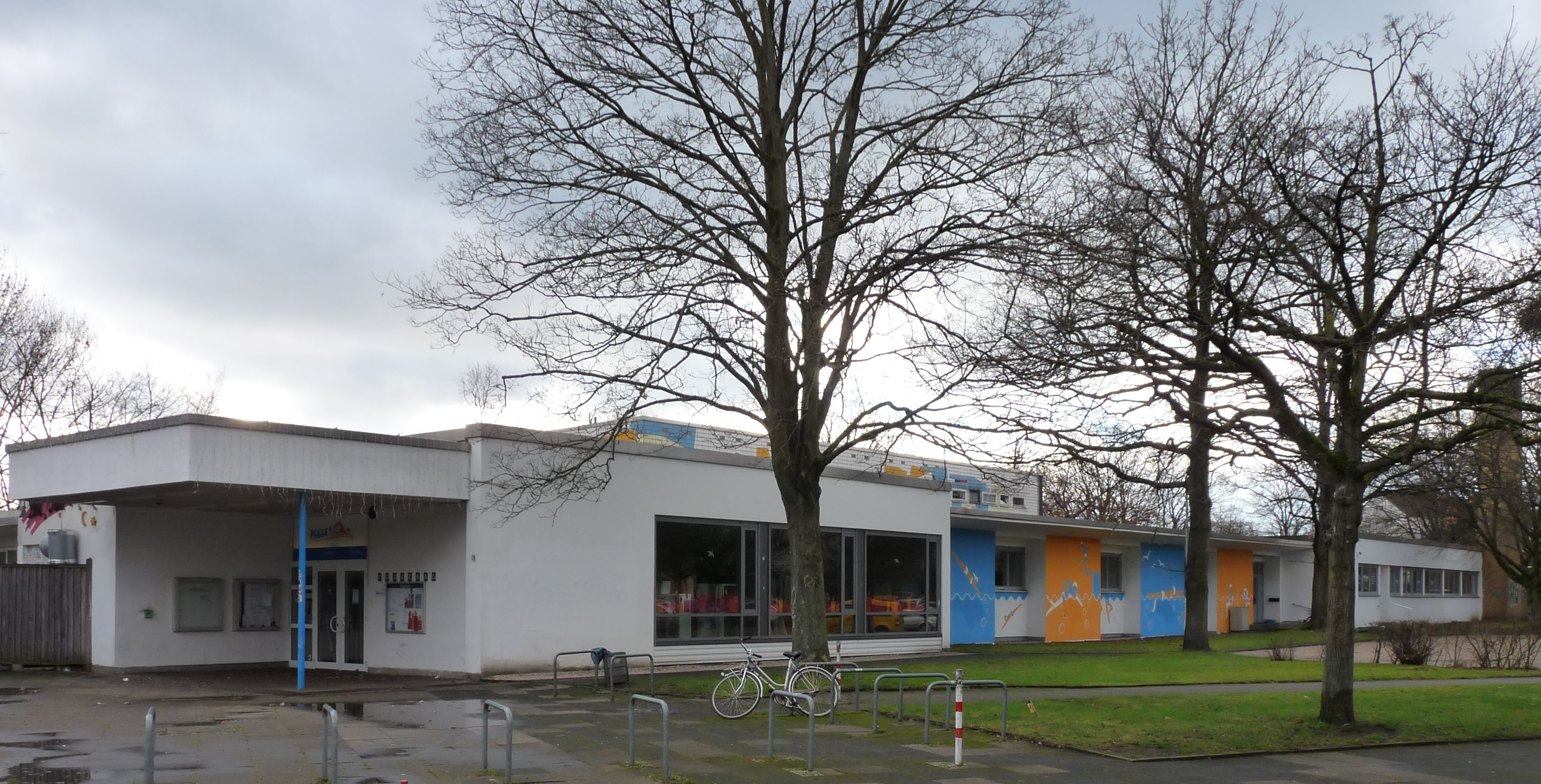 street view of Fössebad